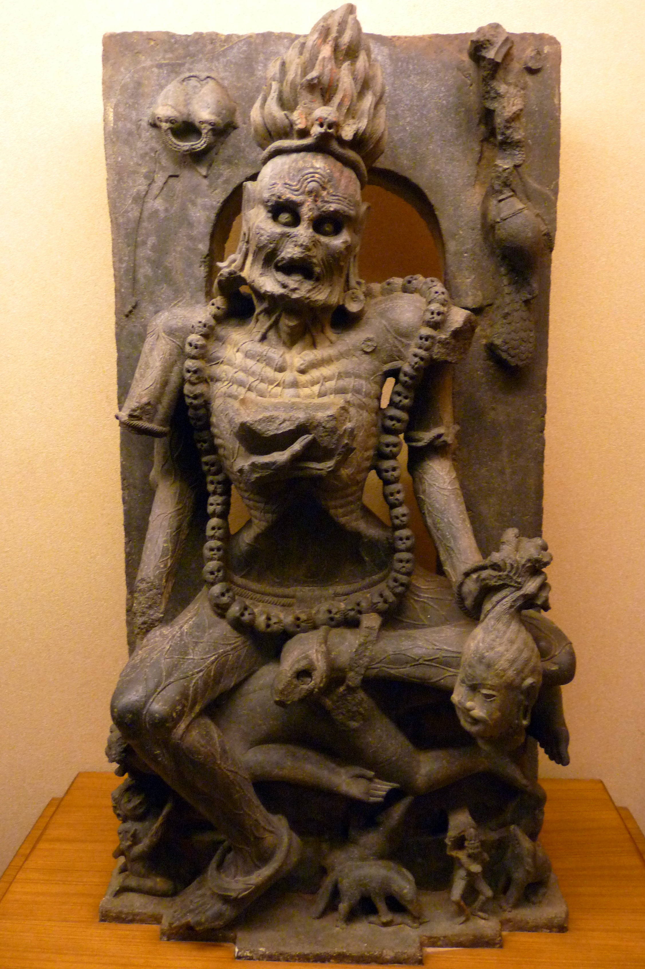 Goddess Chamunda - Stuck to the front of her chest is a cupped hand holding something. The rest of the arm broke off.